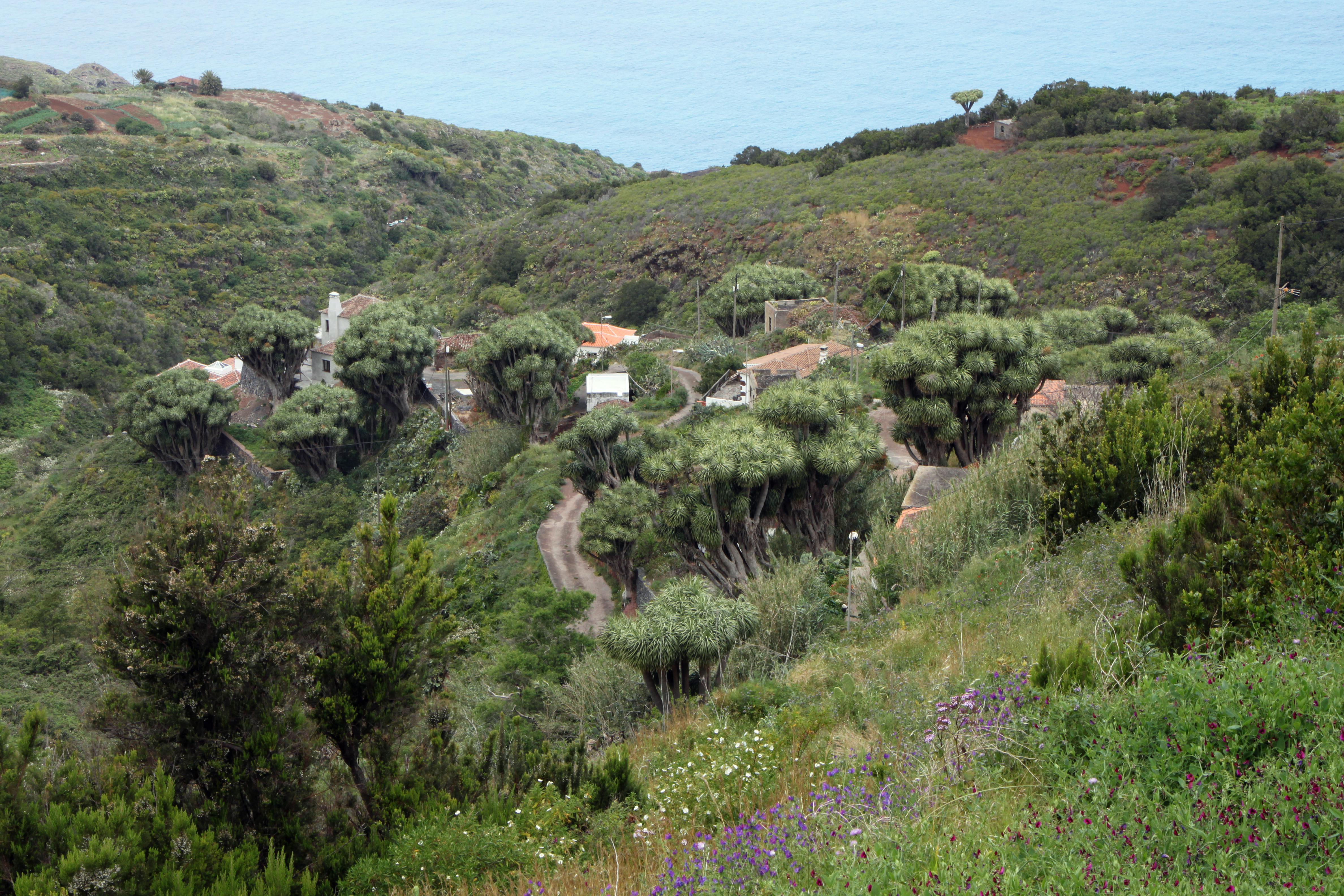 The village La Tosca near Barlovento with the largest grove of dragon trees of La Palma (Canary Islands, Spain)